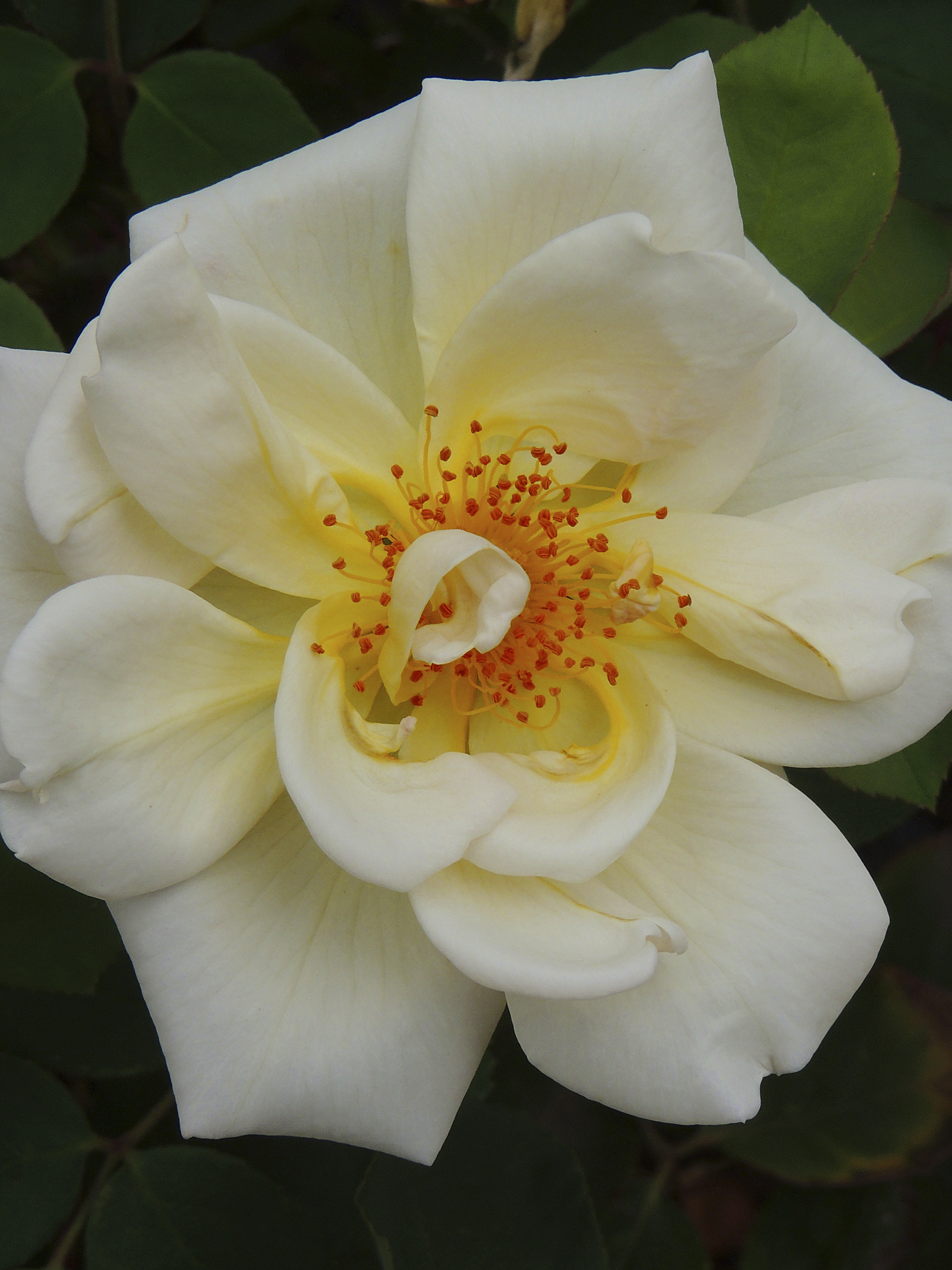 Rose "Vestey's Yellow Tea", Tea found ast Coomb Cottage, Coldstream, Victoria; Photographed ast the Nieuwesteeg Heritage Rose Garden, Maddingley Park, Victoria